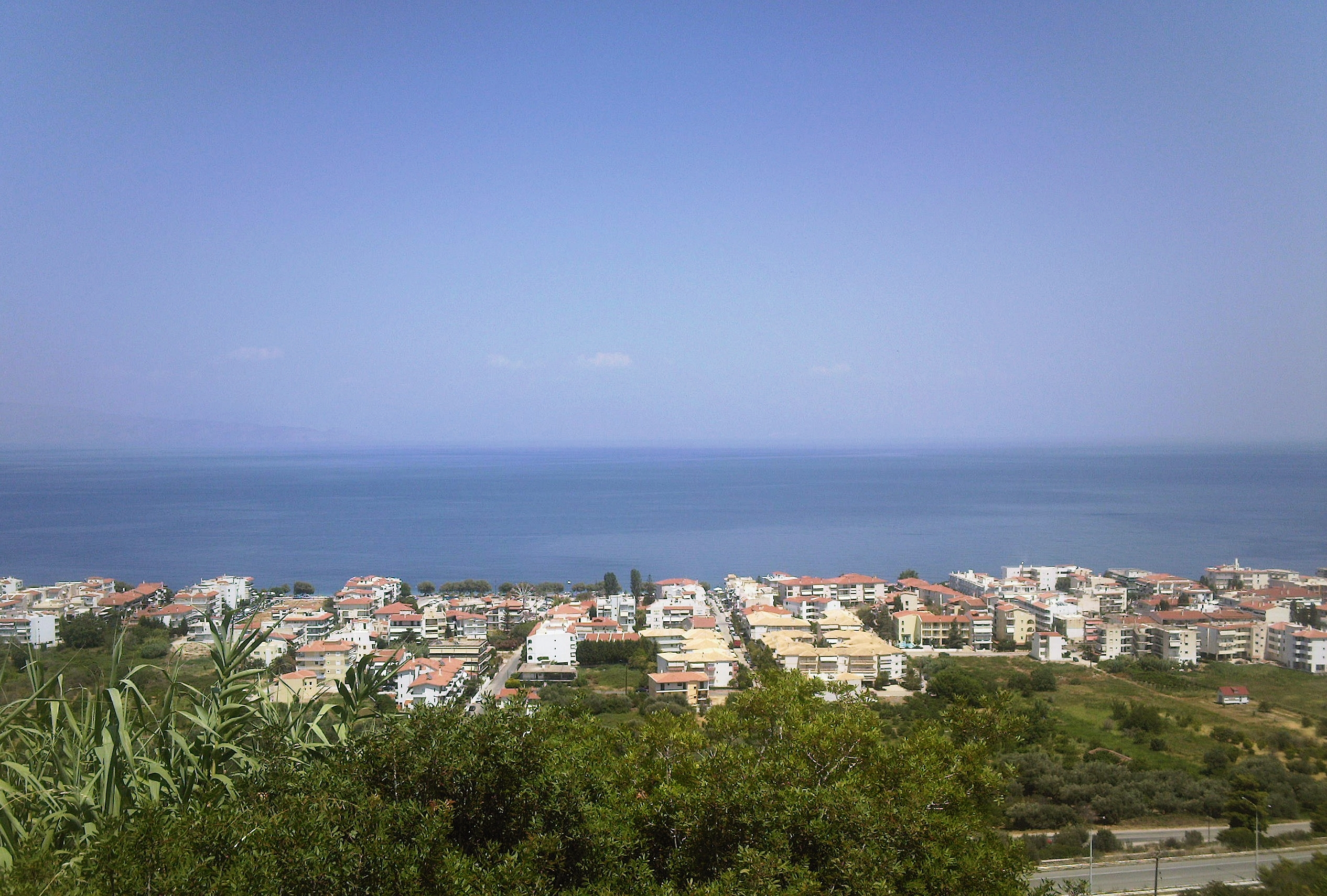 View of Krathi village, Achaia, Greece. It is commonly well-known as Paralia Akratas (Akrata Beach).